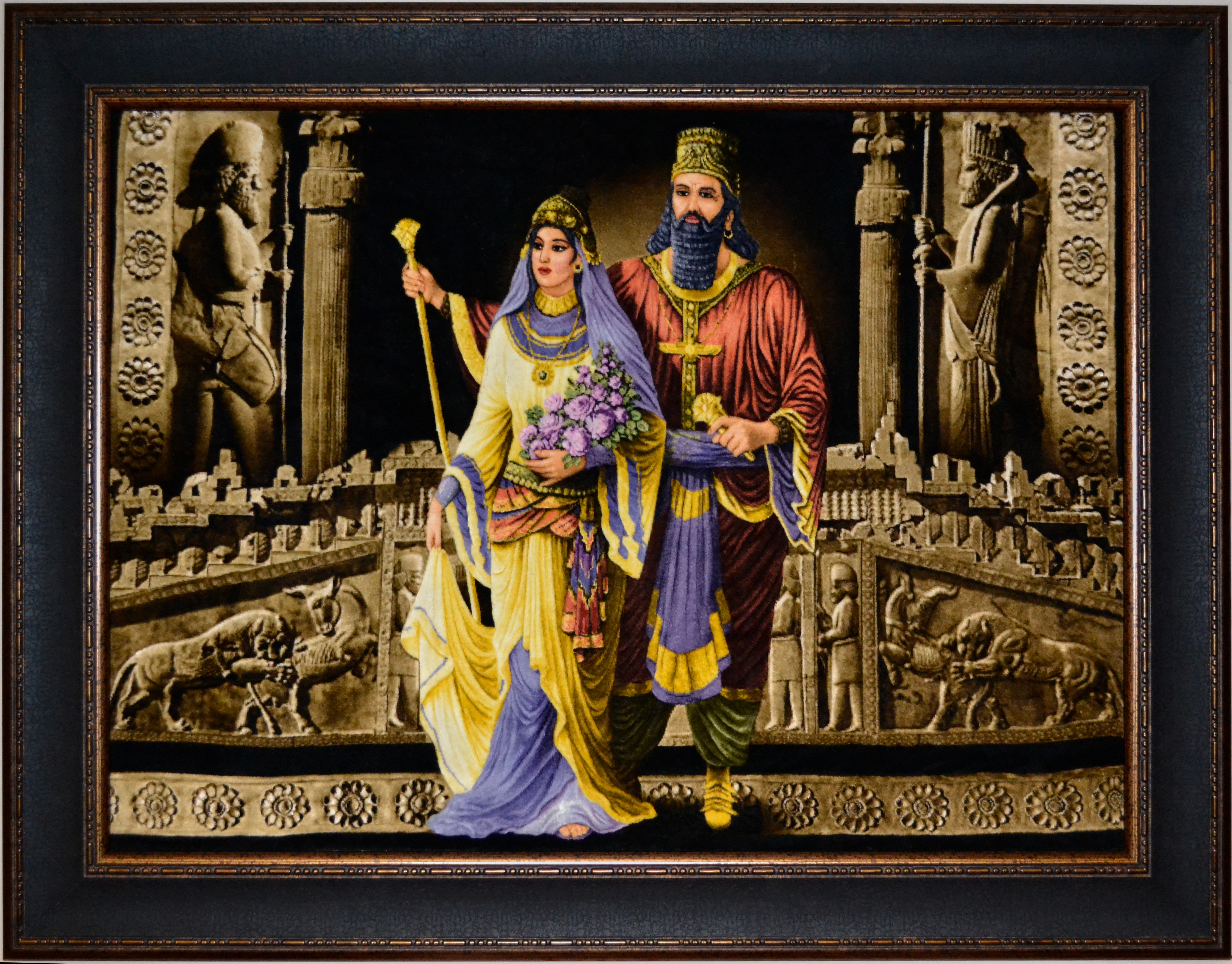 The Great Cyrus & kasandan in the Castle of Apadana Persian Tableau Rug woven in Tabriz IRAN